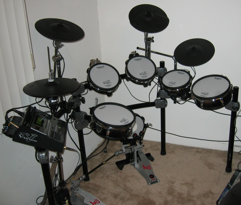 Roland TD-12s V-Stage drum set. Shot also includes an extra PD-105 tom pad, CY-8 cymbal, Axis Longboard double kick pedal, and Iron Cobra Hi-Hat stand.